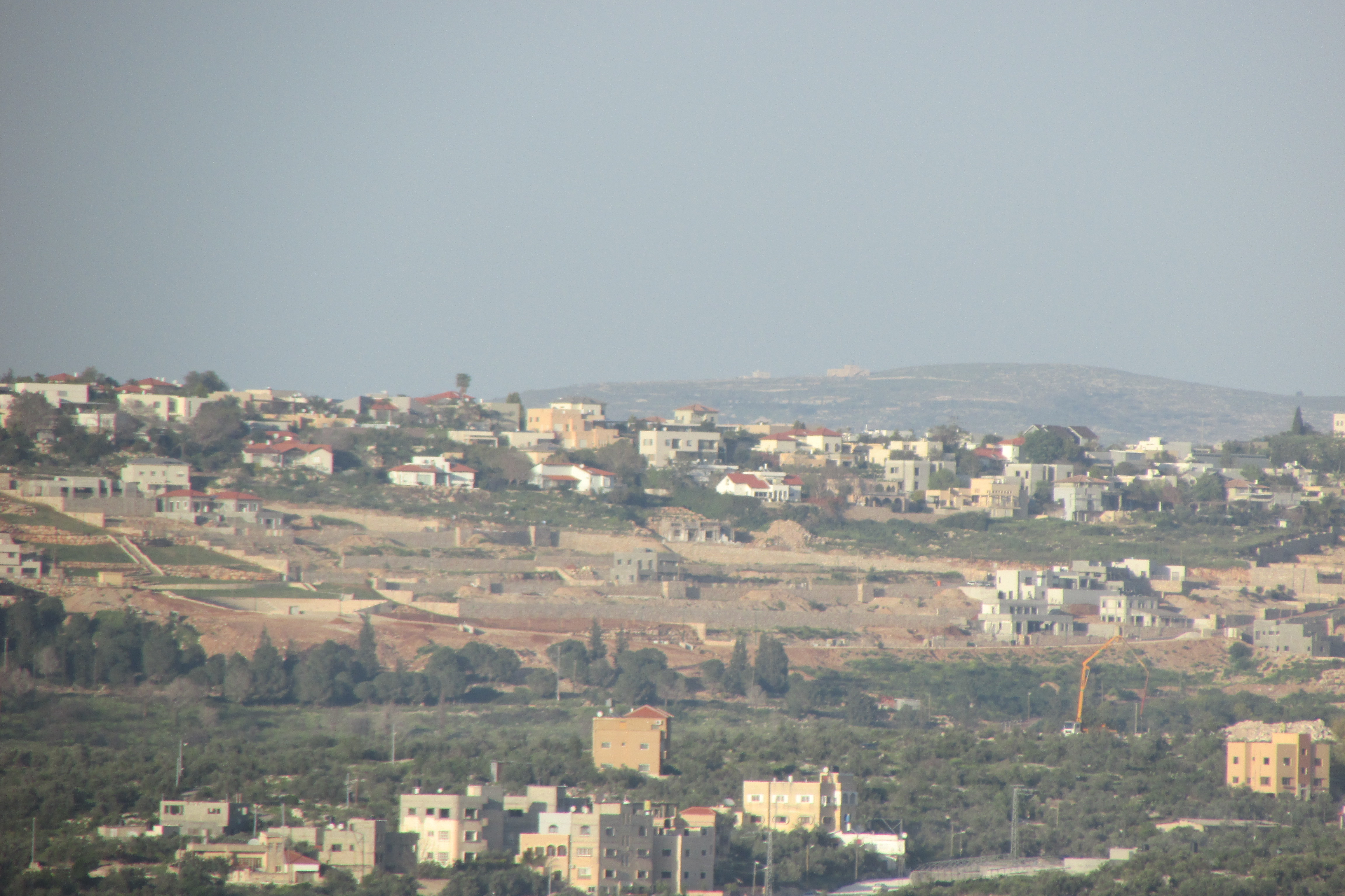 Sal'it from Tzofim